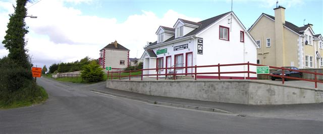 Road at Manorcunningham Buildings to the right include the Post Office and a hair salon